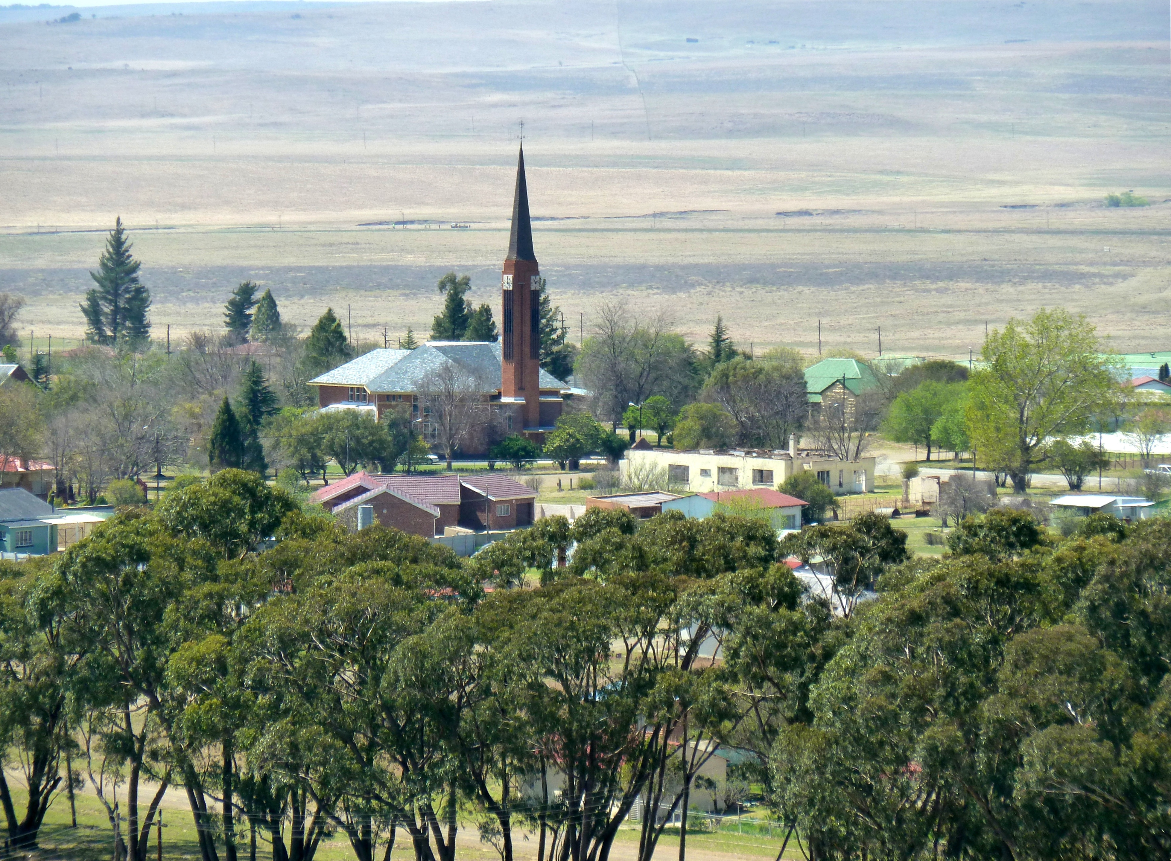 Dutch Reformed church building in Tweeling, Free State